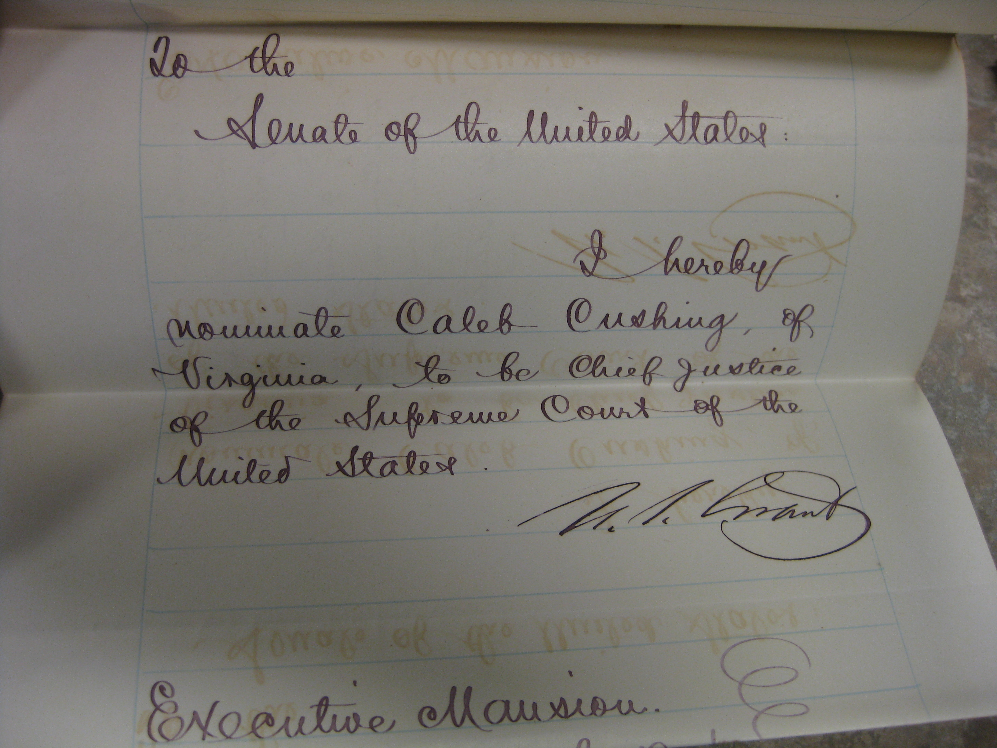 Ulysses Grant's nomination of Caleb Cushing to serve as Chief Justice of the U.S. Supreme Court. Courtesy of the National Archives and Records Administration.